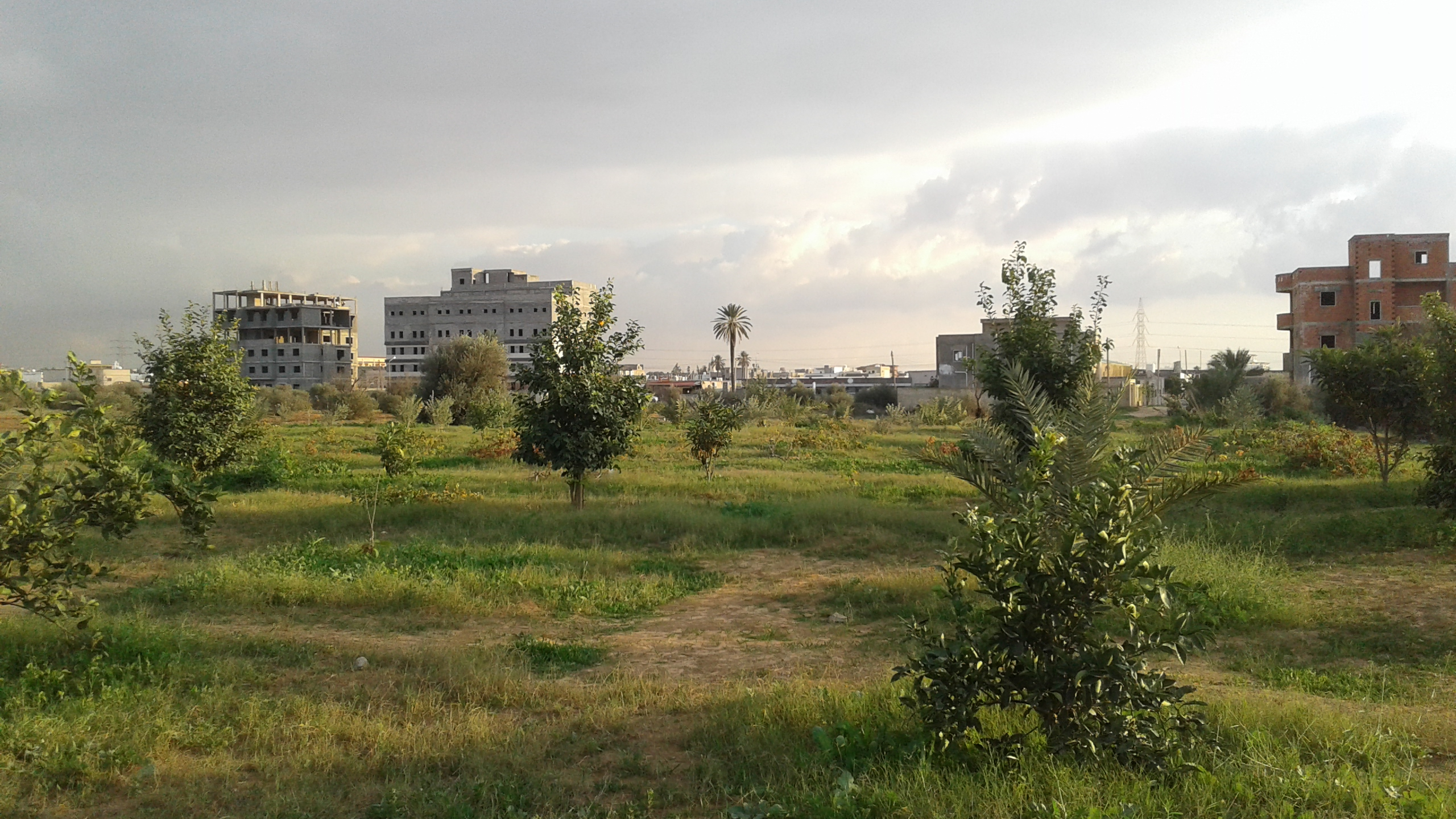 Picture of a beautiful farm in Ain Zara Tripoli